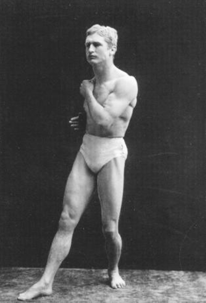 Portrait of strongman Bernarr Macfadden as boxer, 1905 ca.